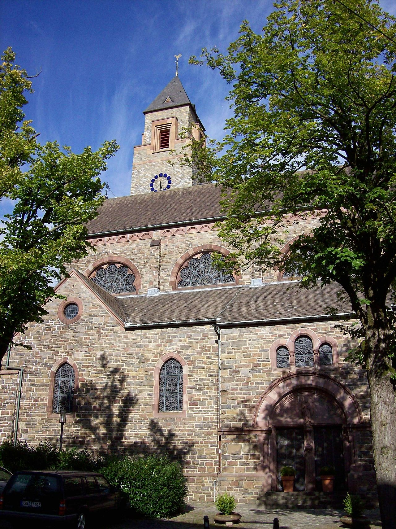 St. Alexander church in Schmallenberg (Germany)